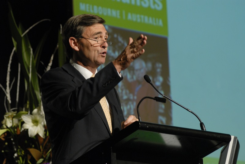 John Brumby - source